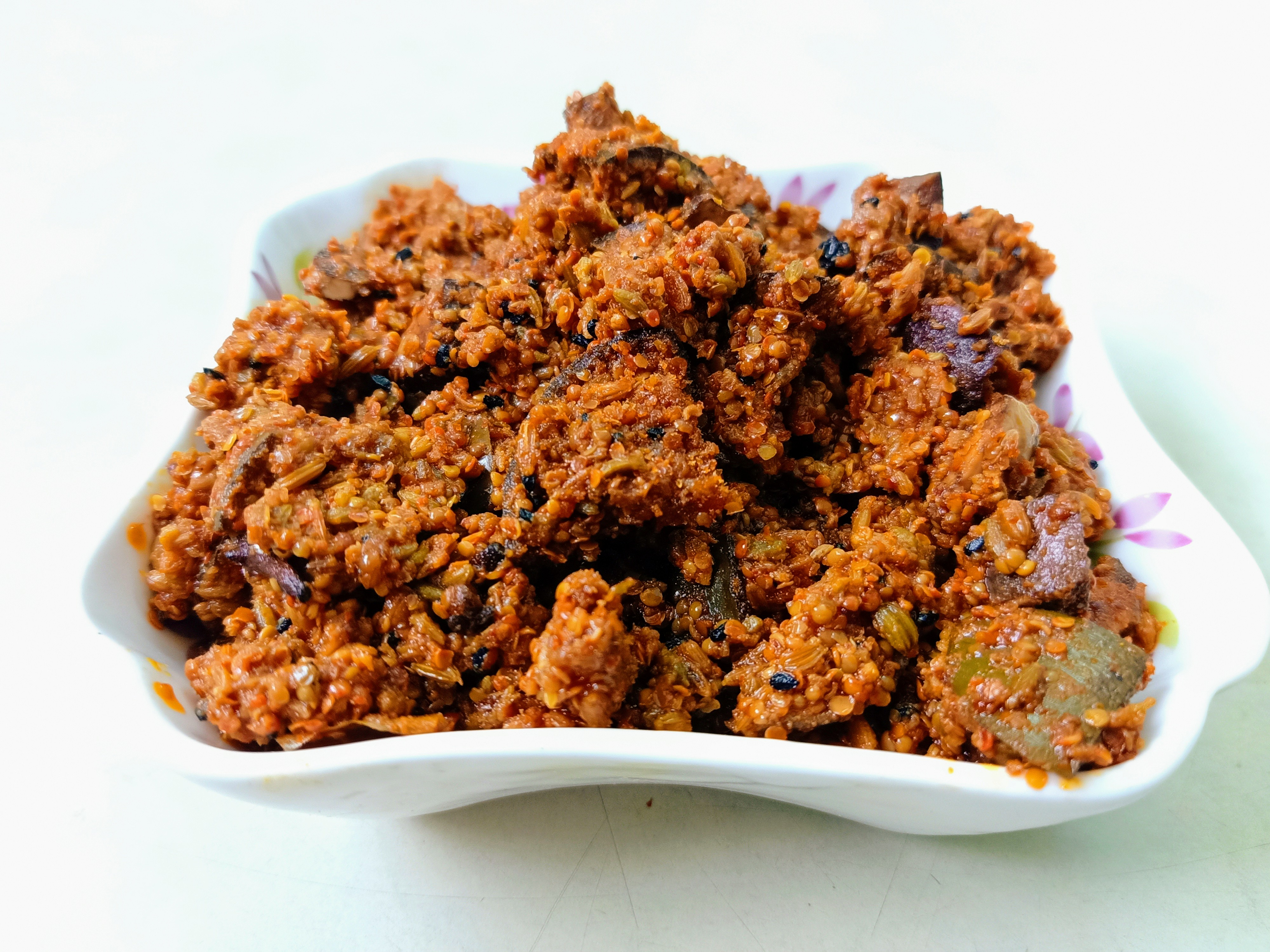 mango pickle in plate 4